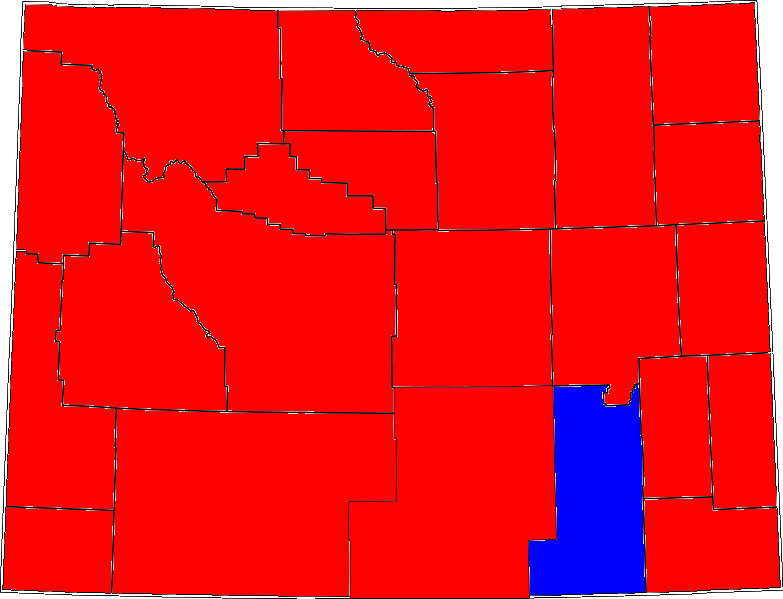 1994 Wyoming Senate election results by county.